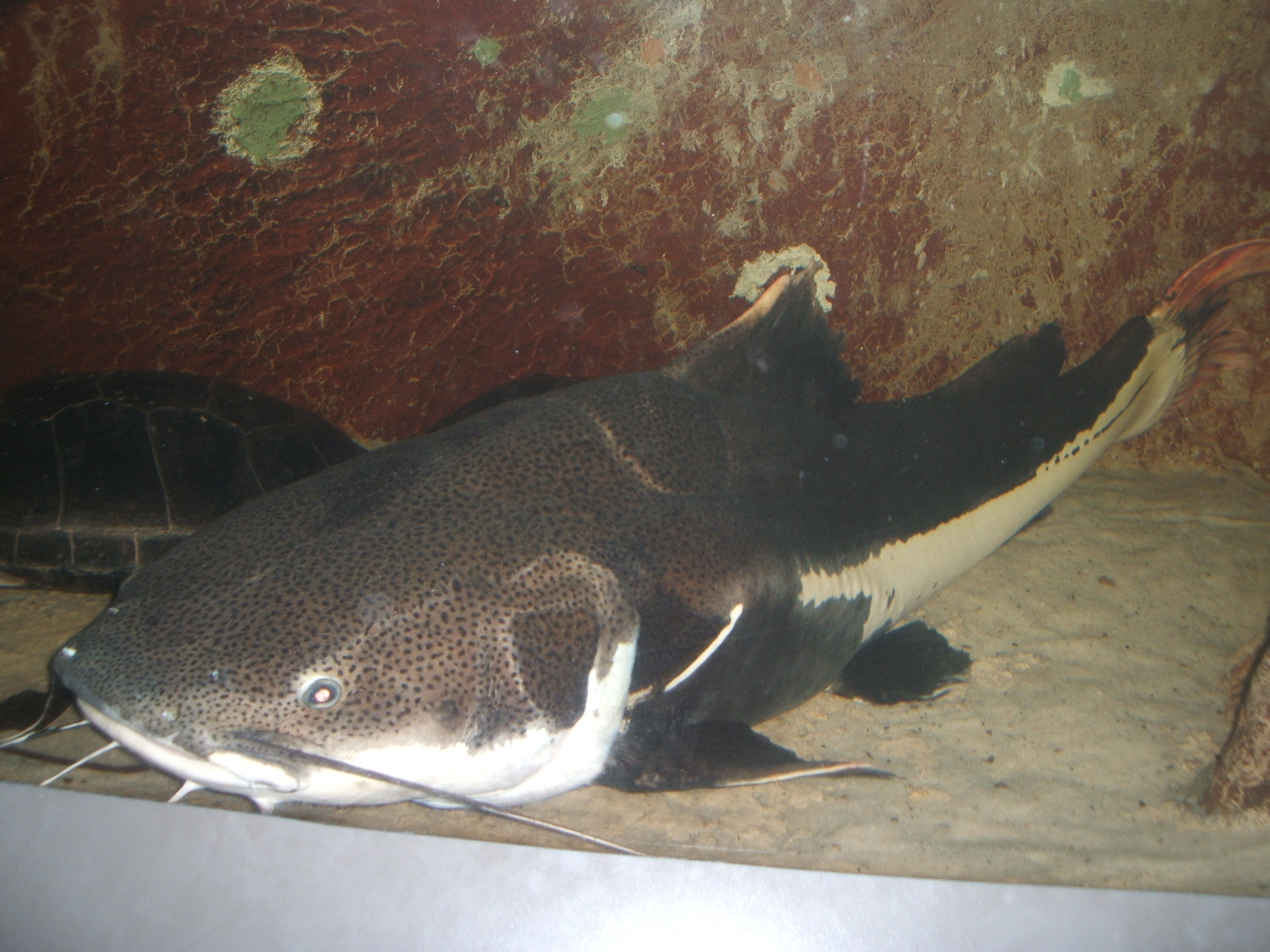 Phractocephalus hemioliopterus (Amazon catfish, family Pimelodidae). Taken at the New England Aquarium (Boston, MA), December 2006. Copyright © 2006 Steven G. Johnson and donated to Wikipedia under GFDL and CC-by-SA. Note that this was initially mislabelled as Pseudoras niger, due to a confusing (or possibly outdated) label at the aquarium, hence the file name.